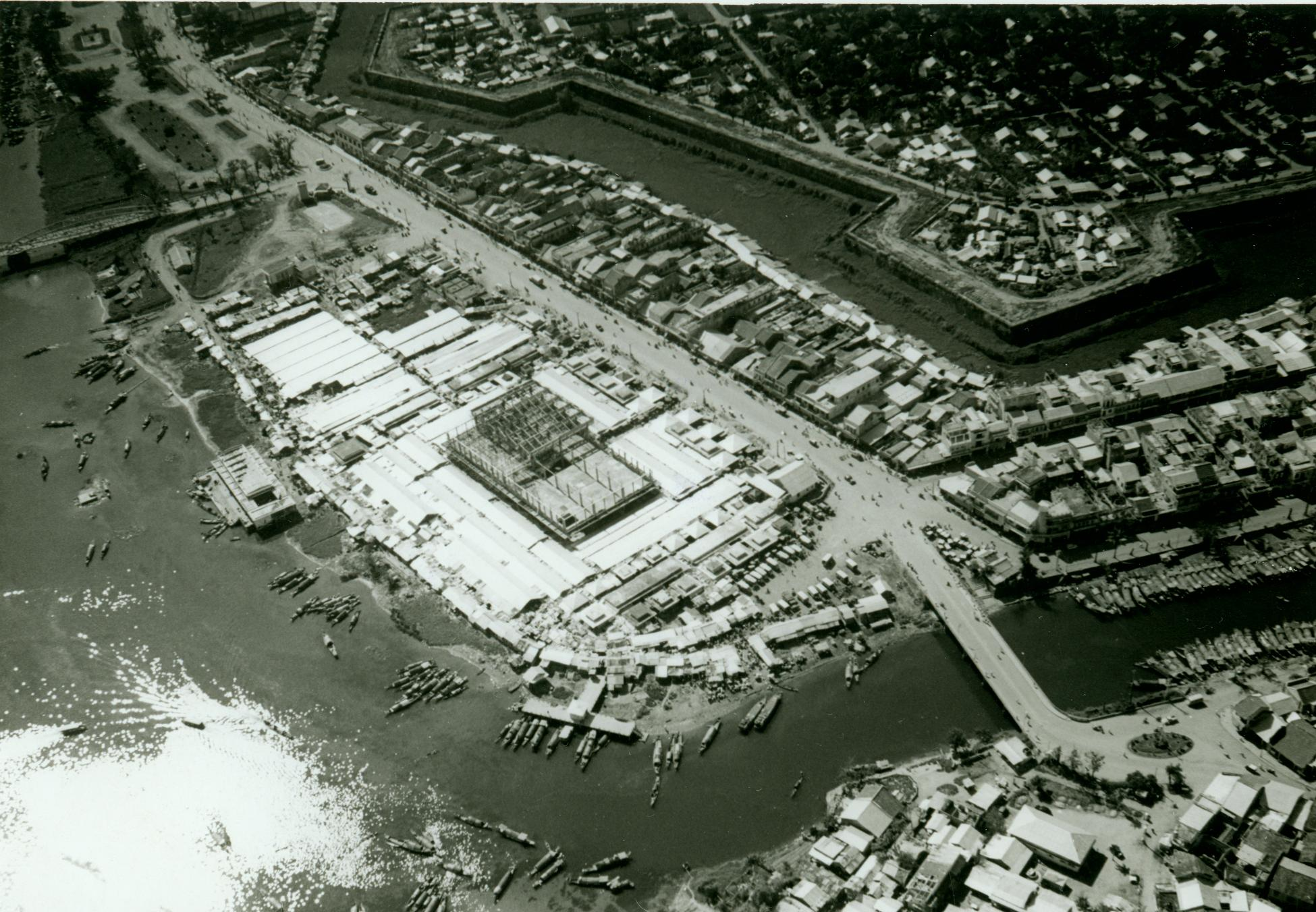 "Dong Ba Market: Seen from the air, Hue’s largest market is the scene of bustling activity. Following Tet, the market place, a prime factor in the reconstruction program, was rebuilt with the help of US ARVN troops (official USMC photo)." From the Jonathan Abel Collection (COLL/3611), Marine Corps Archives & Special Collections. OFFICIAL USMC PHOTOGRAPH